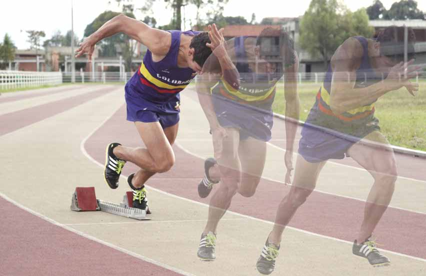 running